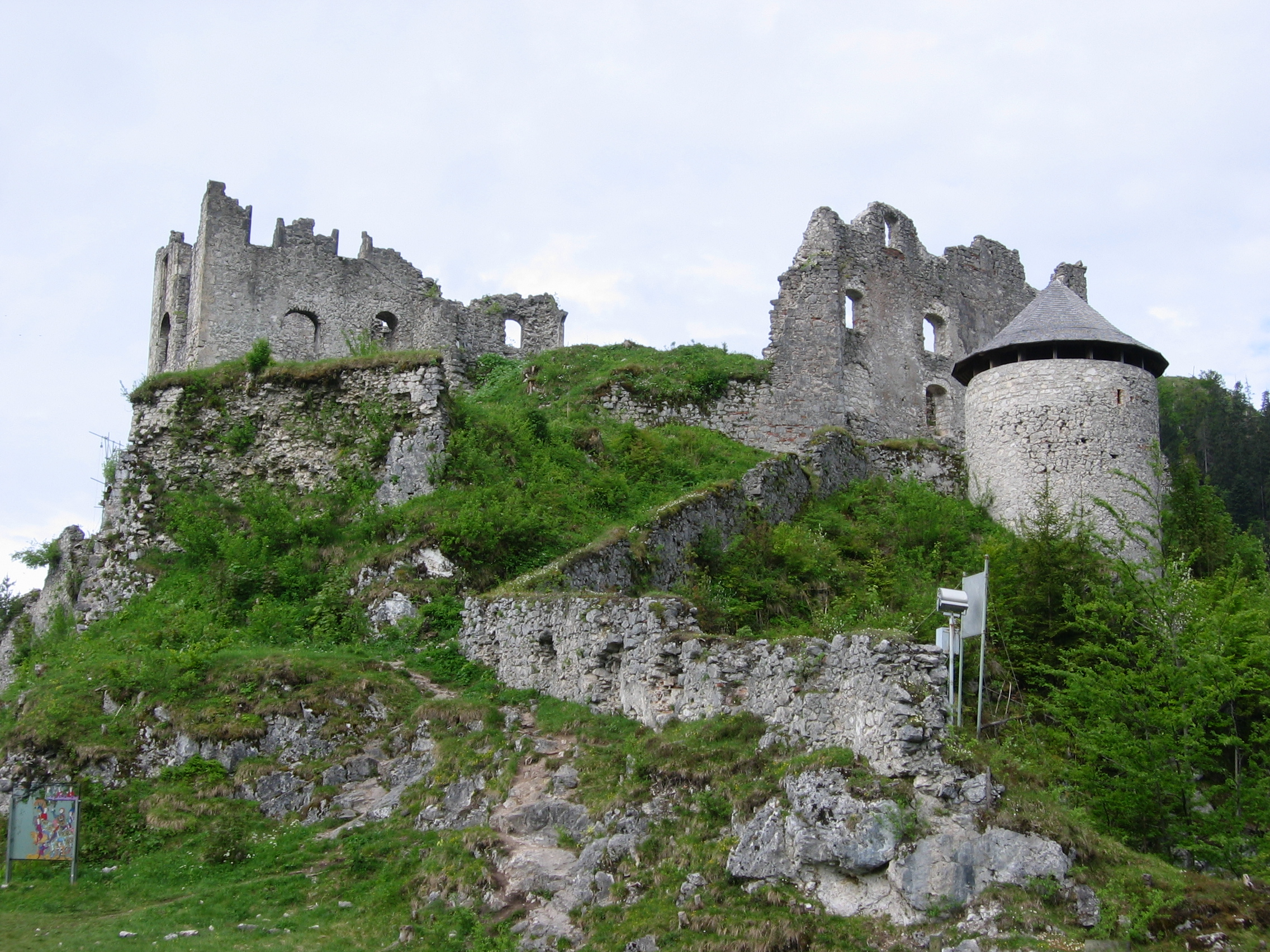 Ehrenberg castle